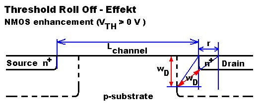 This shows the parameter r of the threshold roll off effect.